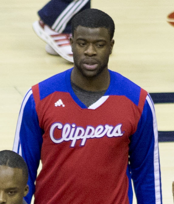 Reggie Bullock